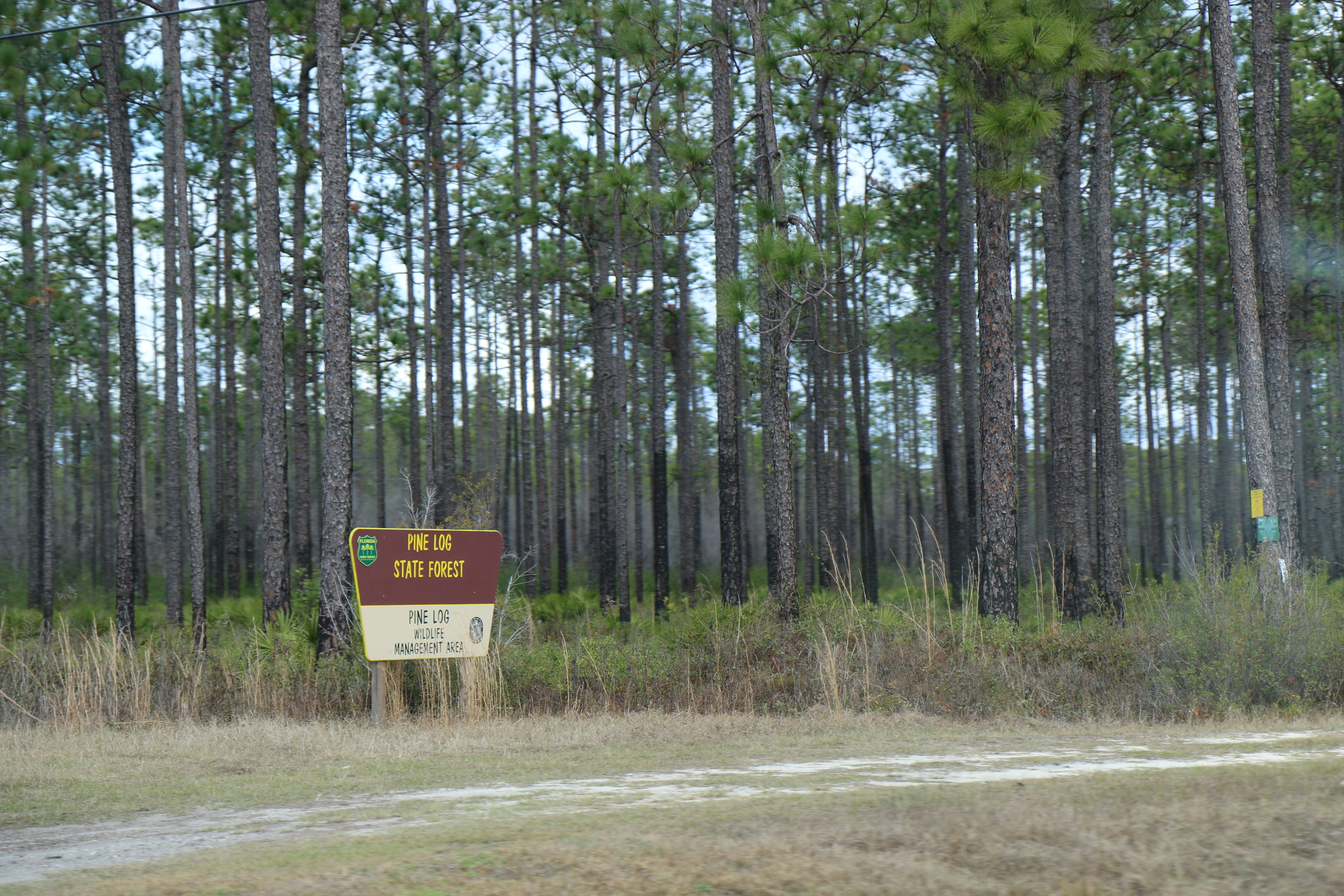 The sign for Pine Log State Forest on State Road 79.